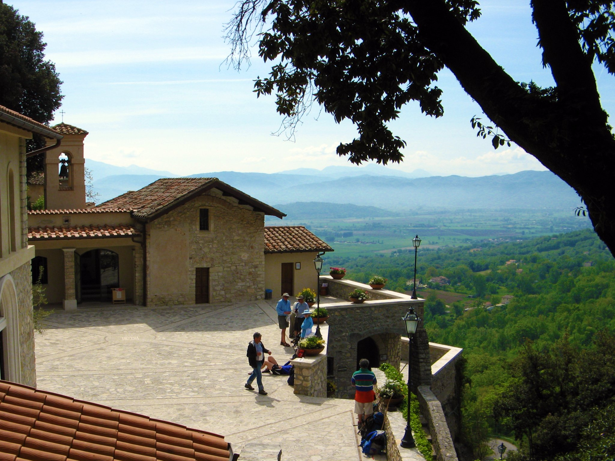 Franciscan sanctuary of Greccio (Province of Rieti, Lazio, Italy)